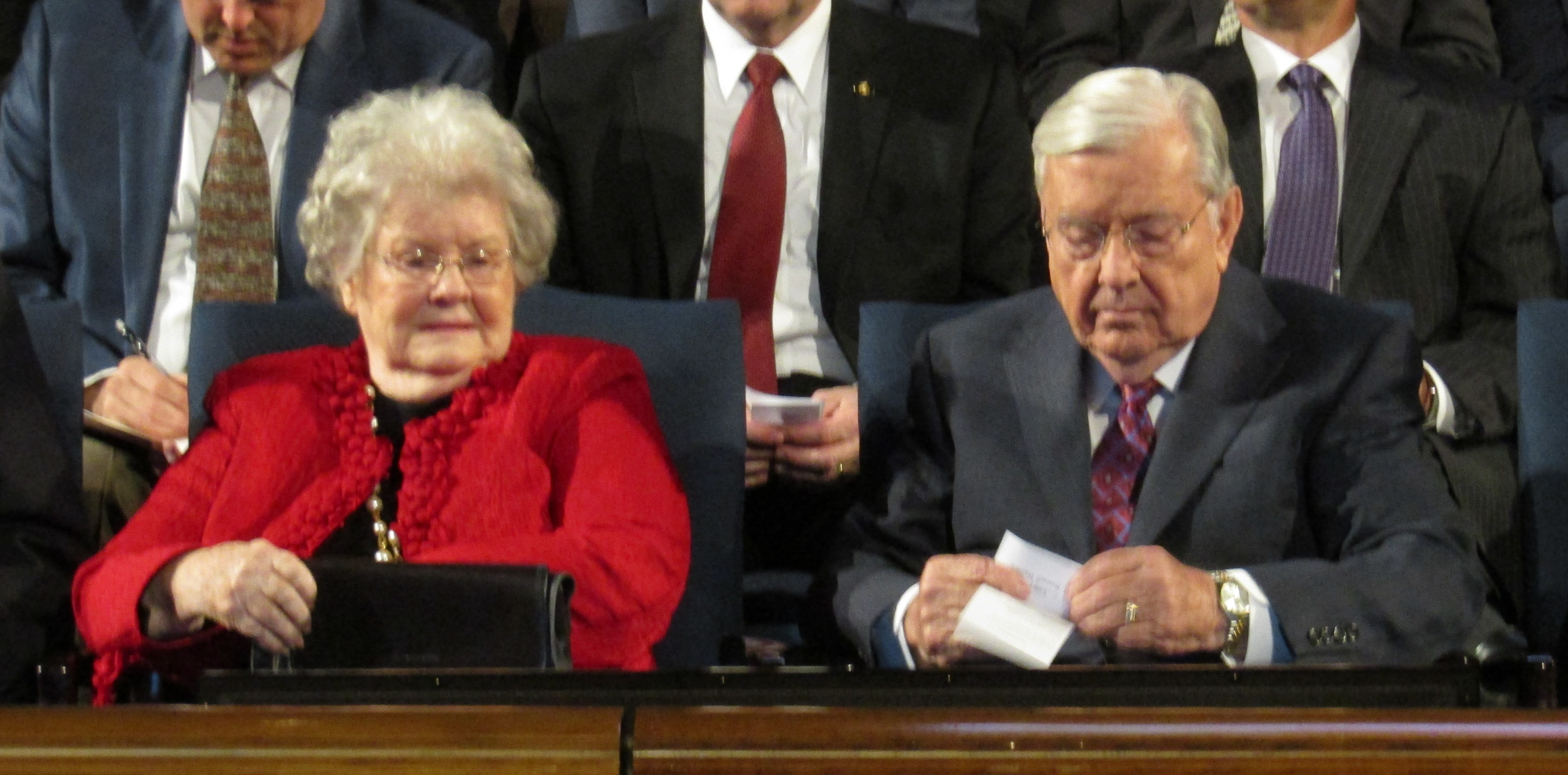 M. Russell Ballard and his wife Barbara Bowen at a BYU devotional.